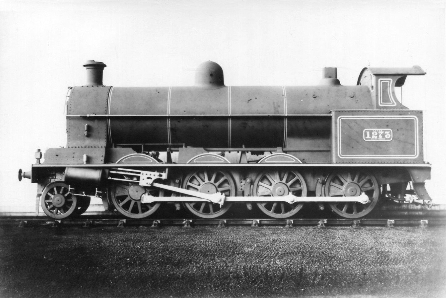 Photograph of LNWR engine No. 1273, F Class